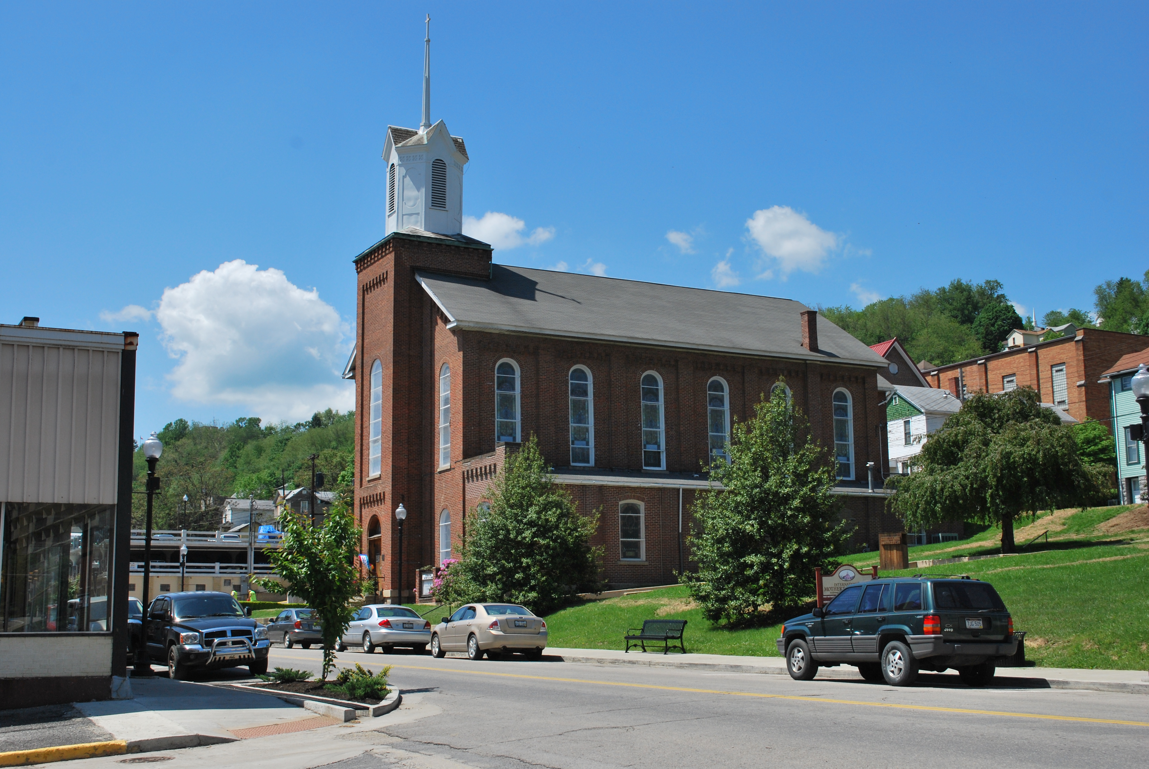 Photo of the International Mothers Day Shrine in Grafton, West Virginia.